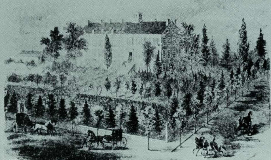 Engraving of the Mount Carroll Seminary campus from the 1867 Oread.